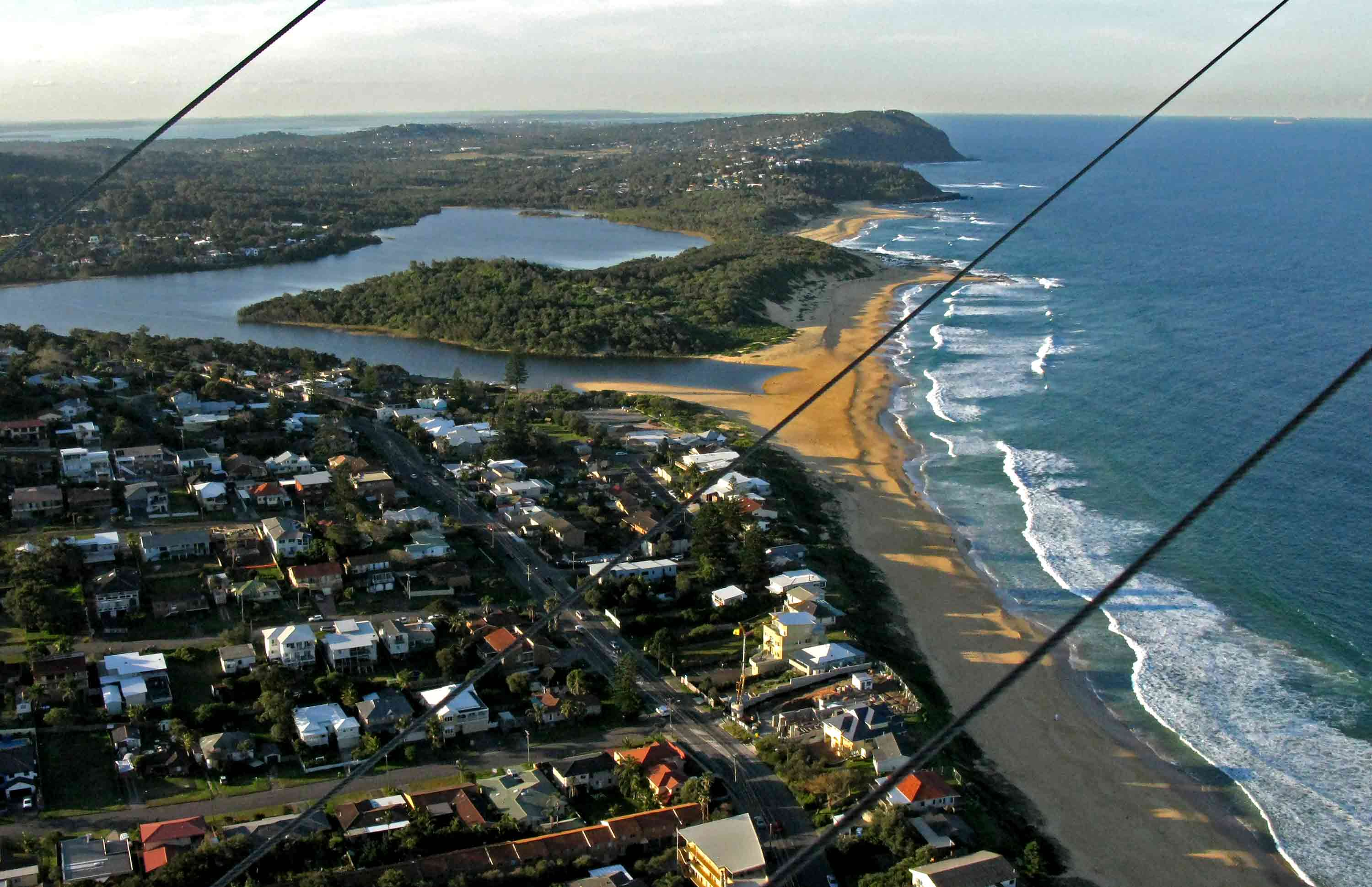 Wamberal Beach from the air